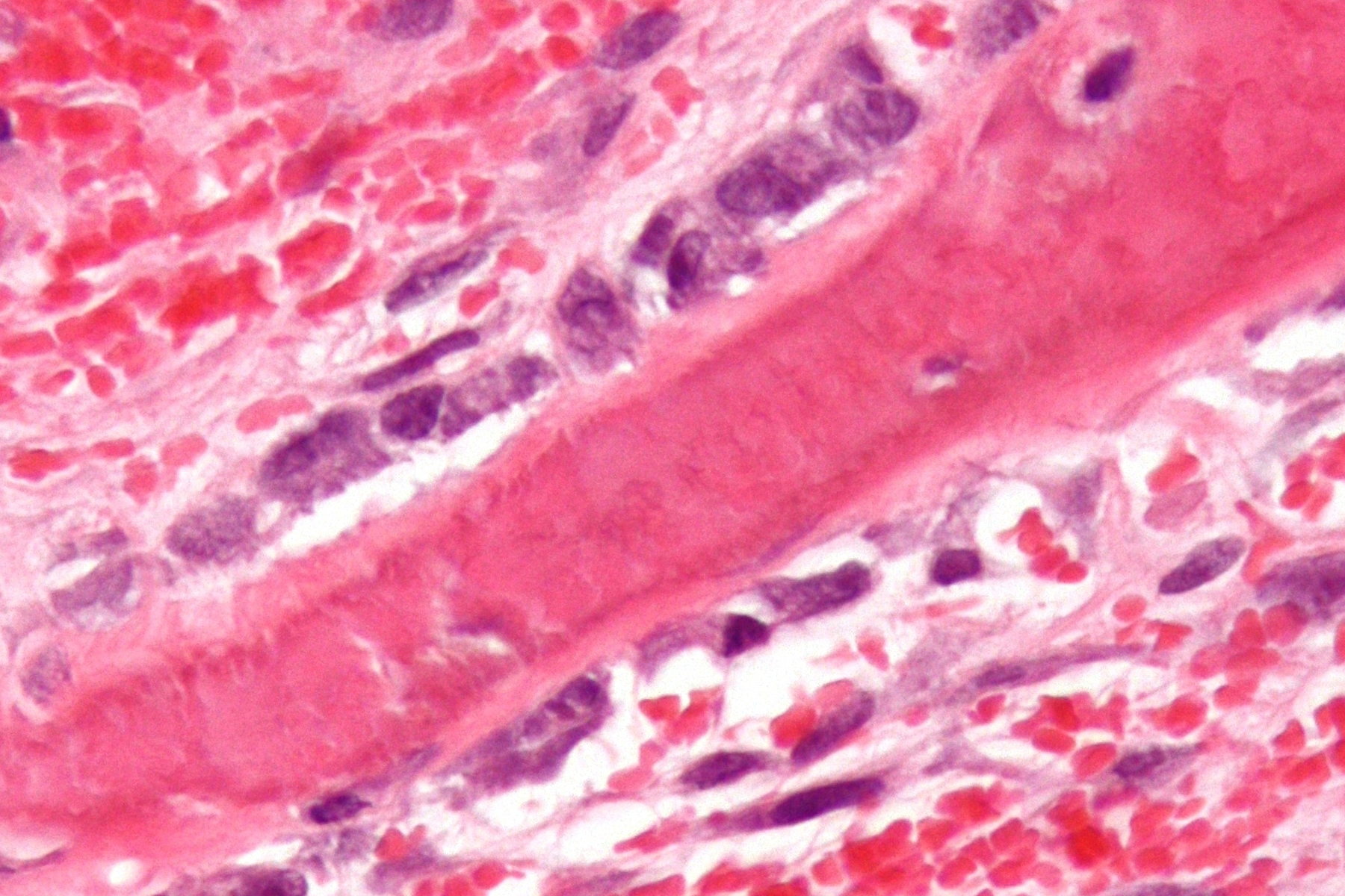 Very high magnification micrograph of bone in hypercalcemia. H&E stain. Brown tumour is present. Brown tumours are lesions that result from hypercalcemia. They are not true neoplasms.[1] Related images Low mag. Low mag. Intermed. mag. Intermed. mag. High mag. Very high mag. Low mag. Intermed. mag. High mag. Very high mag. High mag. Very high mag. References ↑ Meydan N, Barutca S, Guney E, et al. (June 2006). "Brown tumors mimicking bone metastases". J Natl Med Assoc 98 (6): 950–3. PMID 16775919. PMC: 2569361.